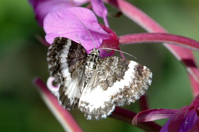 Picture taken in Commanster, Belgian High Ardennes . Species: Spargania luctuata